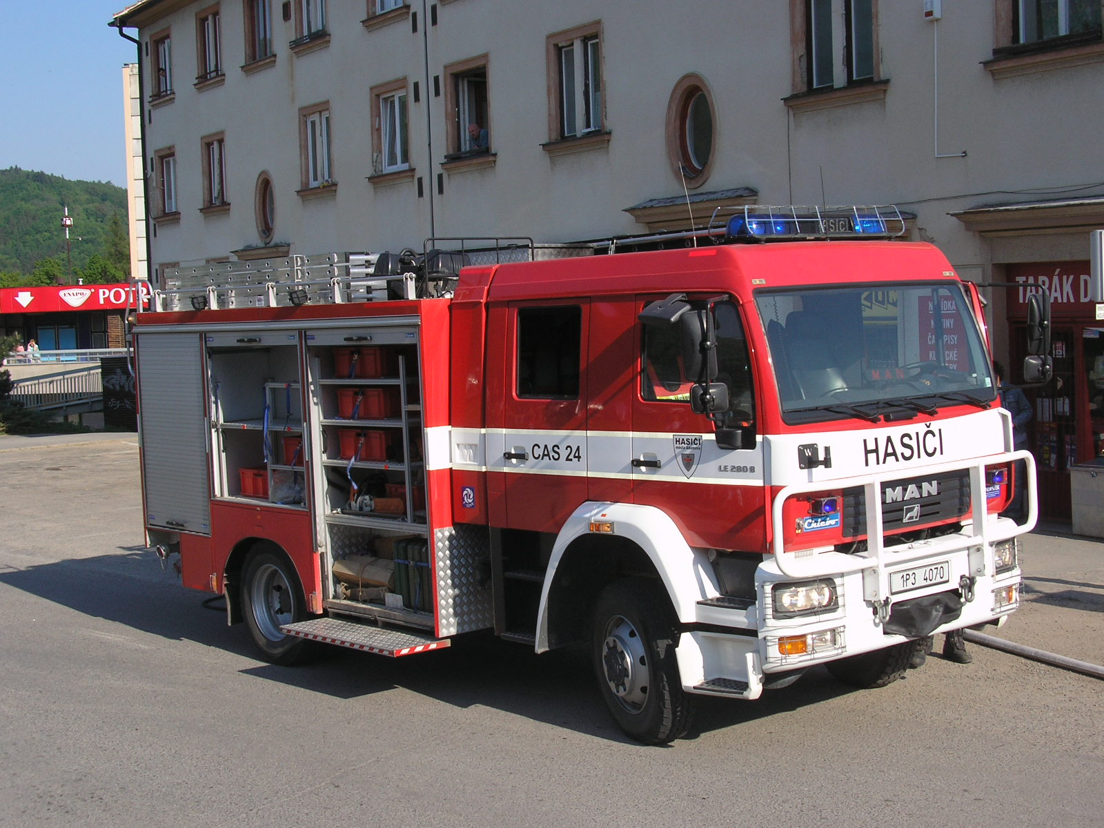 Man Cas 24 (Adamov Fire fighter CZ)